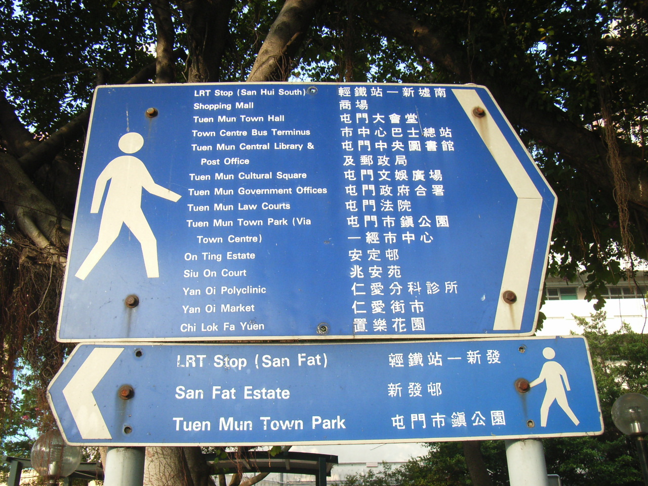 Pui To Road, 杯渡路, Tuen Mun, New Territories, Hong Kong. (Photo created by User:TUmuMATo)。